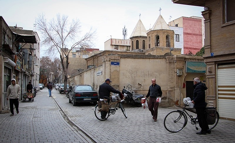 Sangelaj